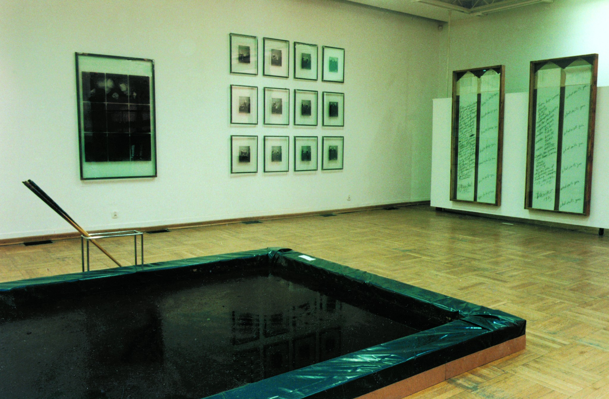 Wincenty Dunikowski-Duniko, Solo Exhibition, Galeria Sztuki Współćzesnej Bunkier Sztuki, 1995 Wincenty Dunikowski-Duniko, wystawa indywidualna, Galeria Sztuki Współćzesnej Bunkier Sztuki, 1995